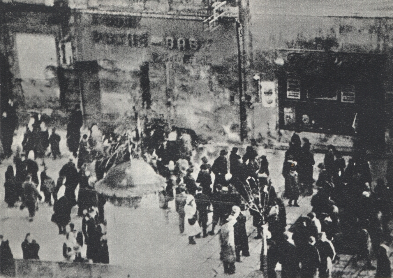 German-occupied Warsaw. City inhabitants gathered at the place of street execution at Aleje Jerozolimskie 31 (strict city centre). On 28th January 1944 about 20-30 Polish hostages were executed in this place by German Police.